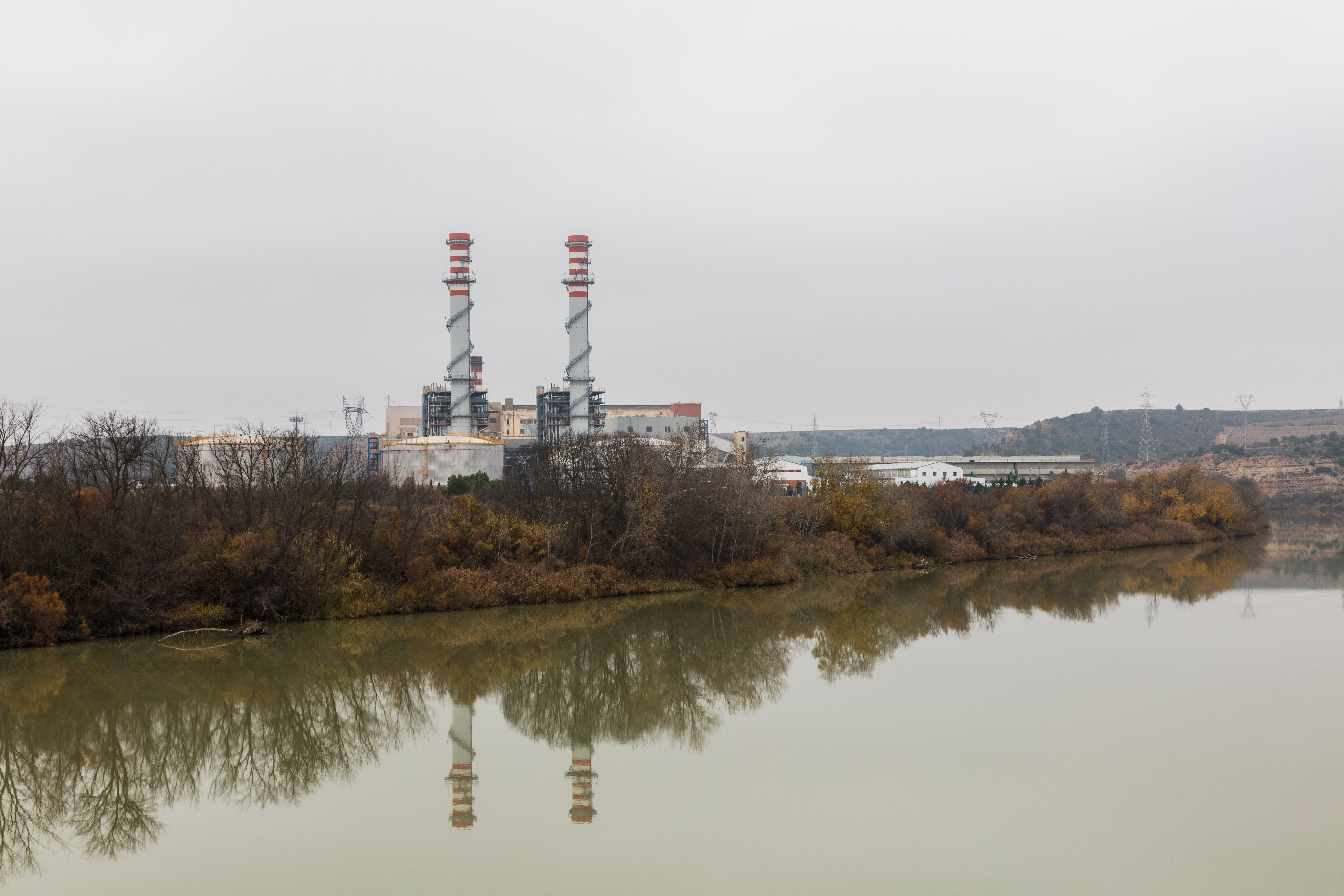 Thermal power station, Escatrón, Zaragoza, Spain